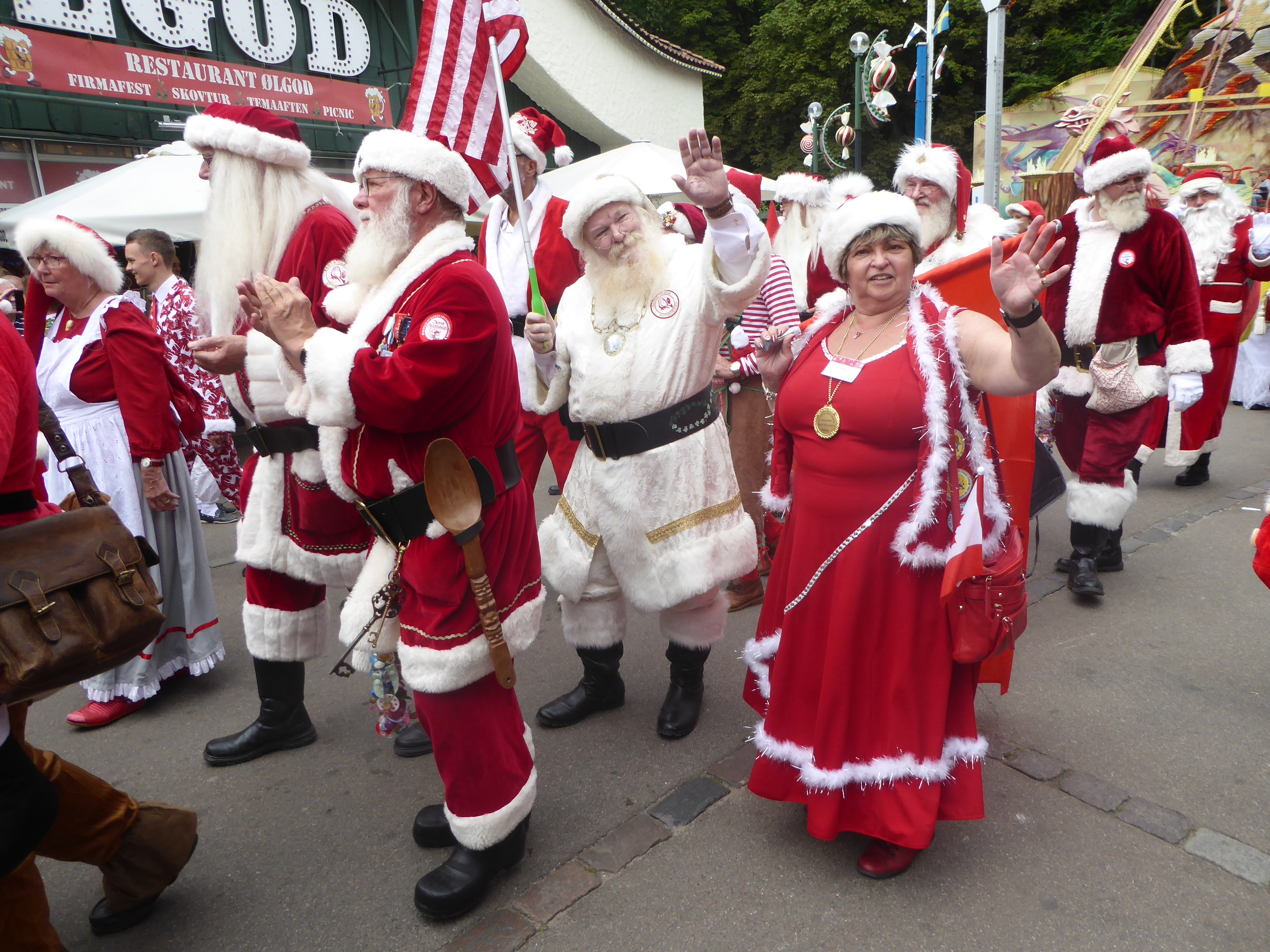 Parade at the World Santa Claus Congress (Julemændenes verdenskongres) in the amusement park Dyrehavsbakken north of Copenhagen.